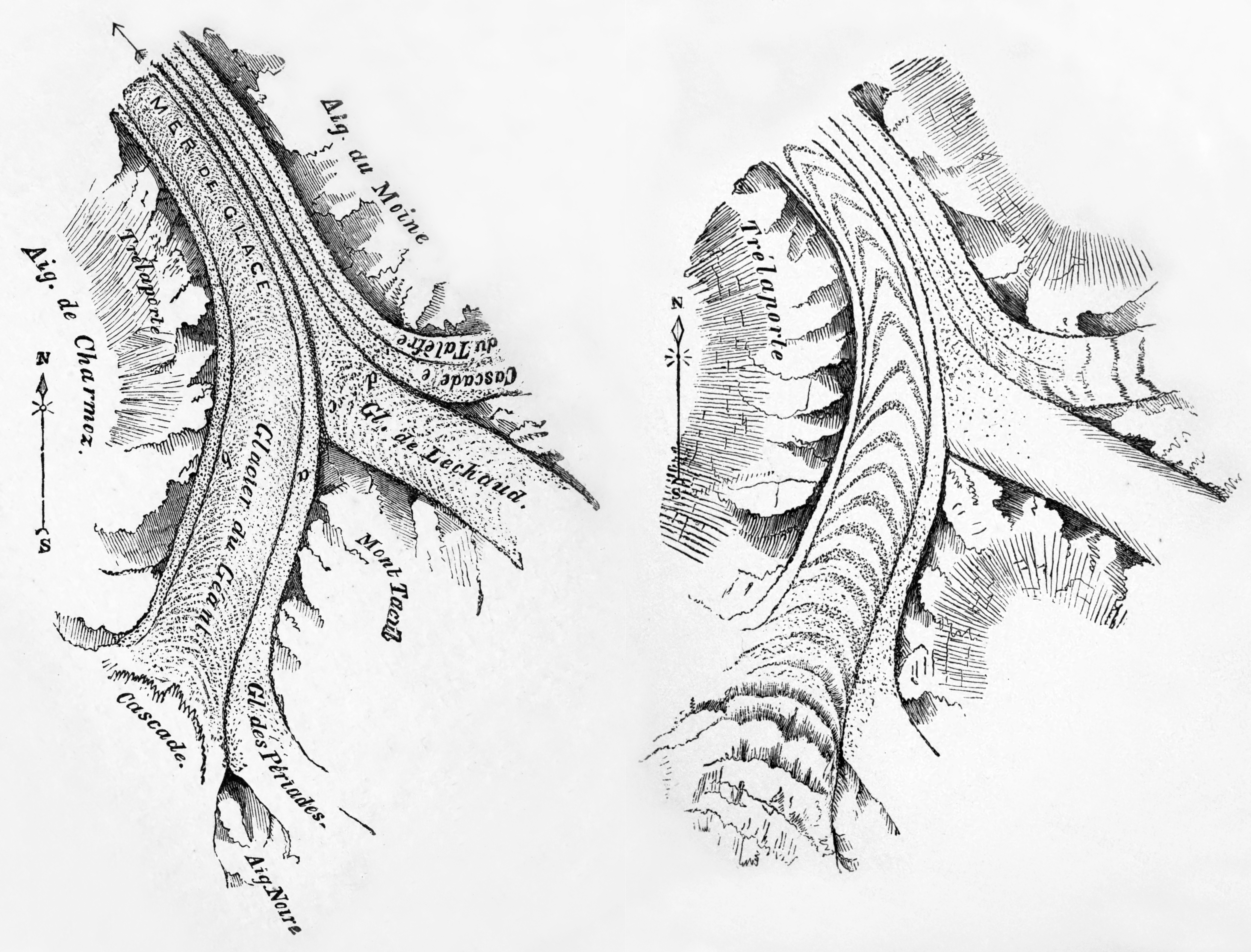 Mer de Glace sketchmap by John Tyndall, 1857. Published in The glaciers of the Alps, being a narrative of excursions and ascents, an account of the origin and phenomena of glaciers, and an exposition of the physical principles to which they are related, with illustrations. 2nd edition 1896, Longmans, Green, And Co., London, New York, Bombay. Fig. 7, page 53 (left): Aiguille Noire to the south dividing the Cascade at the west from Glacier des Périades which flows north to join Glacier du Géant flowing south to north between Mont Tacul on the east and Aiguilles de Charmoz to the west (alongside morraine 'b'). This forms the medial morraine 'a'. Some 3 kilometres downstream, Glacier de Lechaud joins du Géant, forming medial morraine 'c'. Just prior to this confluence, Cascade du Talèfre, with its own medial morraine 'e', joins Lechaud forming morraine 'd'. Here the glacier is known as the Mer De Glace and flows north-north-west between Aiguille du Moine on the east and Trélaporte on the west. Fig 37, facing page 336 (right): Dirt-bands of the Mer de Glace, as seen from the Cleft Station, Trélaporte.